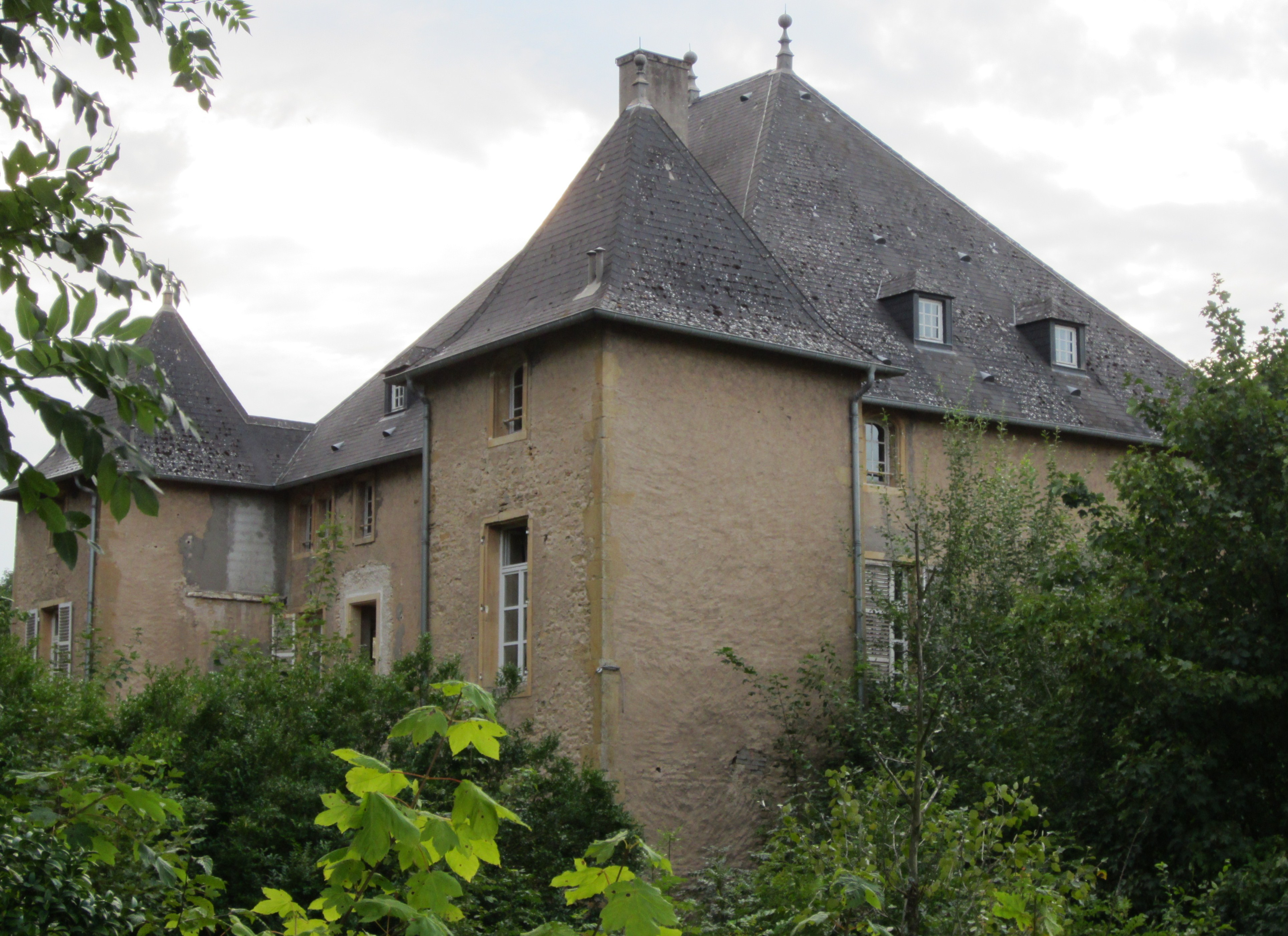 Description chateau Verneville Date2 September 2011Sourcemon appareil photoAuthorAimelaimePermission (Reusing this file) chateau Verneville